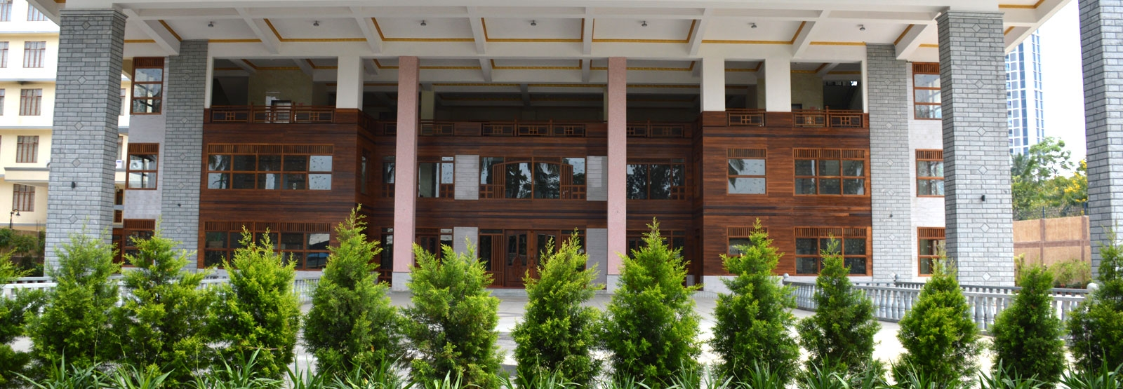 Christ University Bannerghatta Road Campus